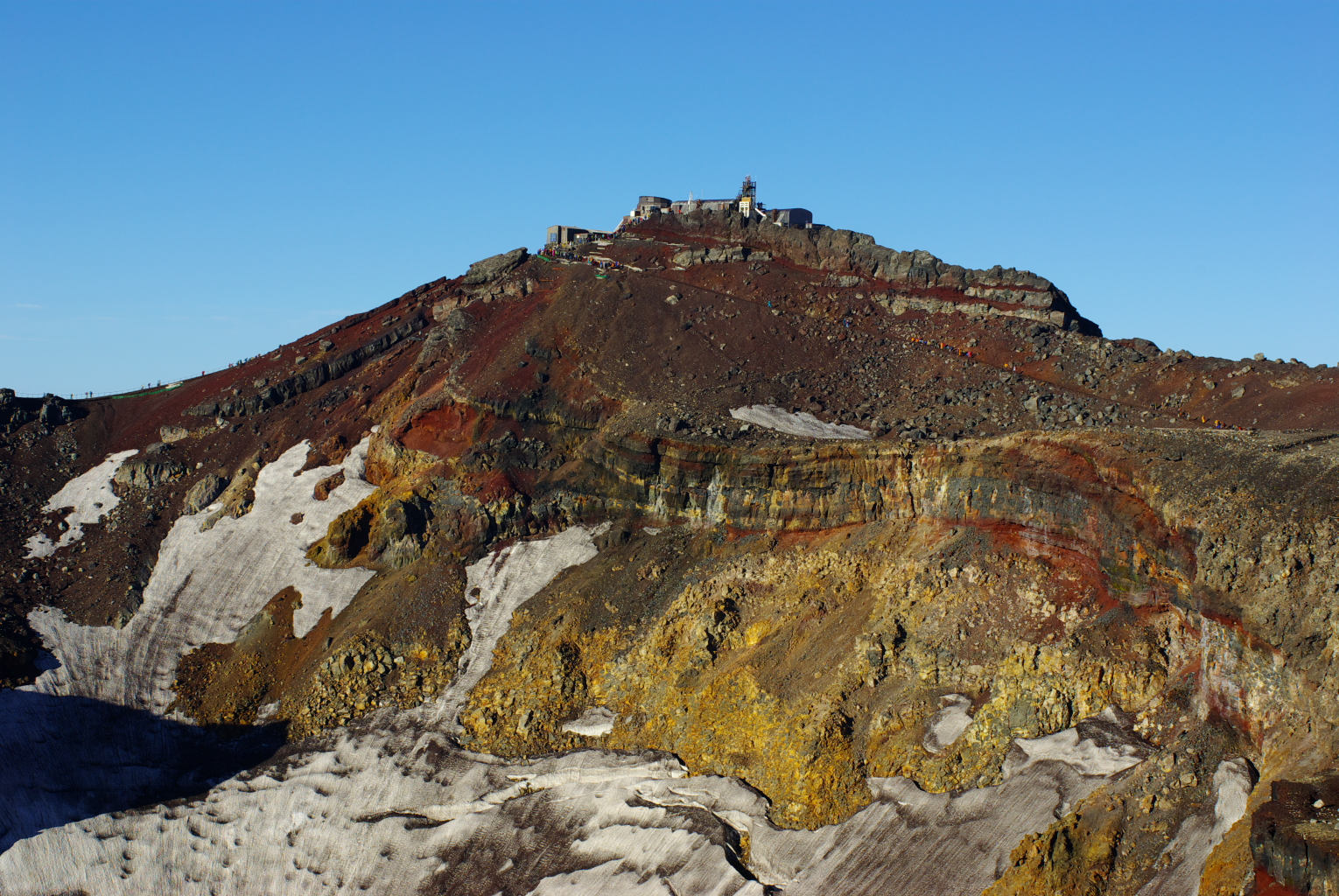 The Kengamine peak of the Mount Fuji, seen from the Joju-dake peak